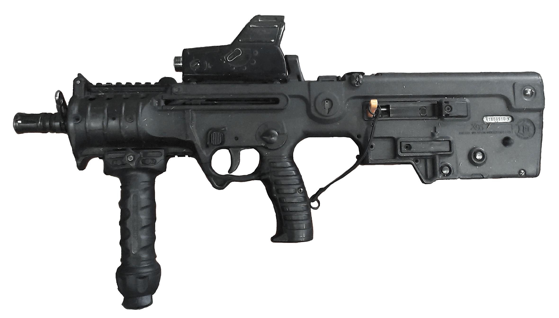 Israel Defense Forces Micro-Tavor X95